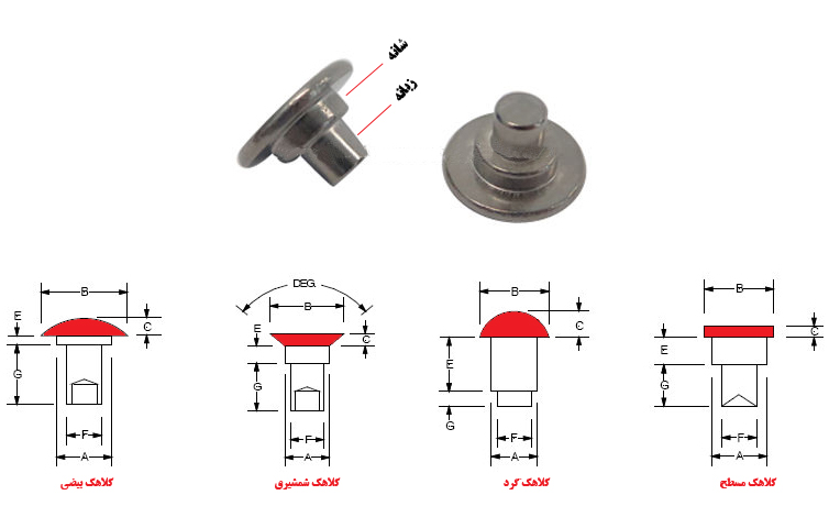 پرچ شانه دار